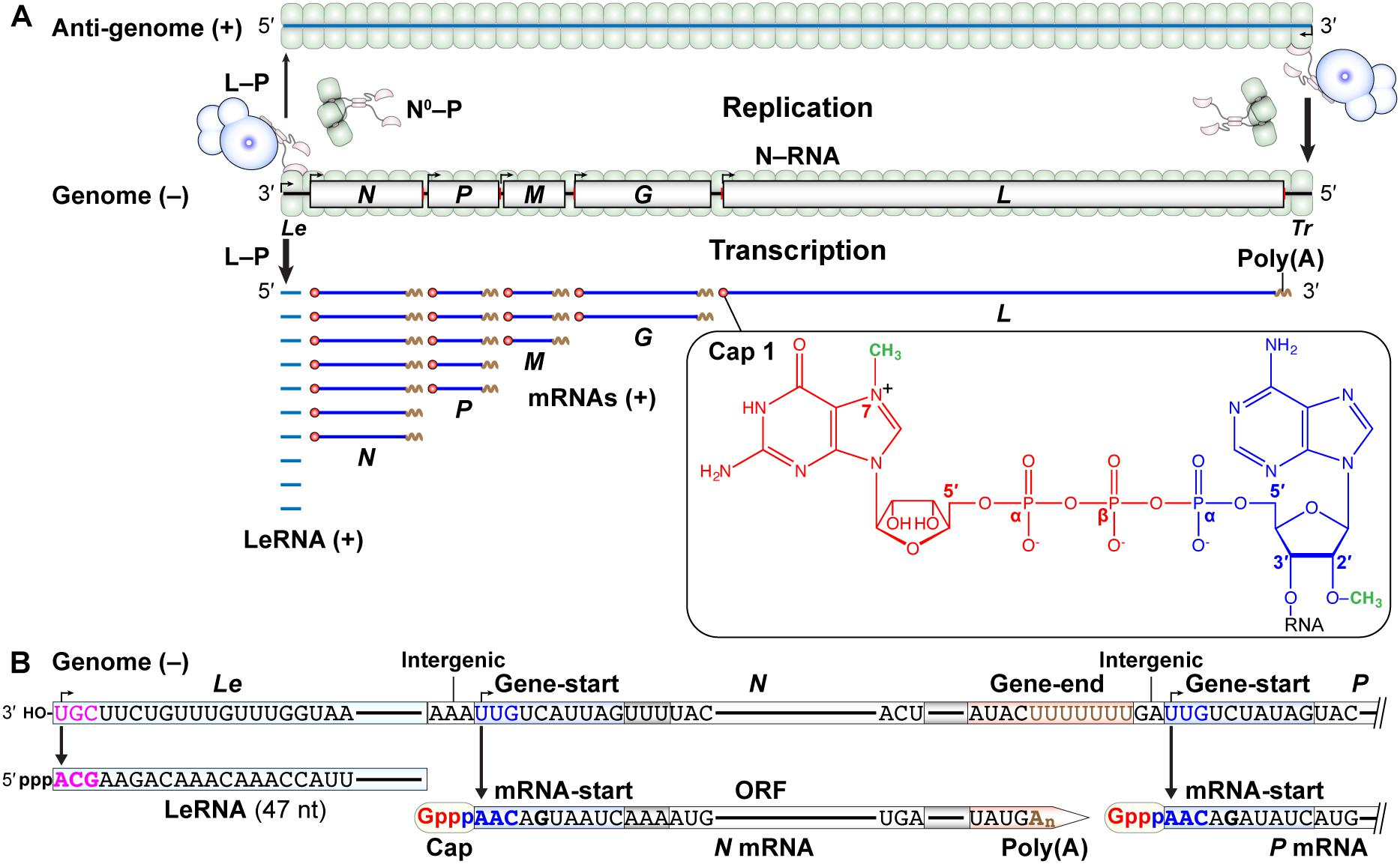 Transcription and replication of the vesicular stomatitis virus (VSV) genome. (A) The negative-strand VSV genome in the N–RNA complex serves as a template for transcription (lower) and replication (upper). Le and Tr denote the terminal leader and trailer regions, respectively, in the genome. According to the single-entry, stop-start transcription model, the L–P RdRp complex enters from the 3′-end of the genome and sequentially synthesizes the leader RNA (LeRNA) and five monocistronic mRNAs with a 5′-cap 1 structure and 3′-poly(A) tail (lower). A GDP moiety (red) of GTP, an AMP moiety (blue) of ATP, and two methyl groups (green) are incorporated into the cap 1 structure. The L–P and N0–P (N0: RNA-free N) complexes are required for encapsidation-coupled genome replication (upper). (B) LeRNA is synthesized from the 3′-terminal of the Le promoter in the genome. The conserved gene-start and gene-end sequences serve as internal transcription initiation and termination/polyadenylation signals, respectively. The conserved 5′-terminal mRNA-start sequence acts as a signal for mRNA capping.